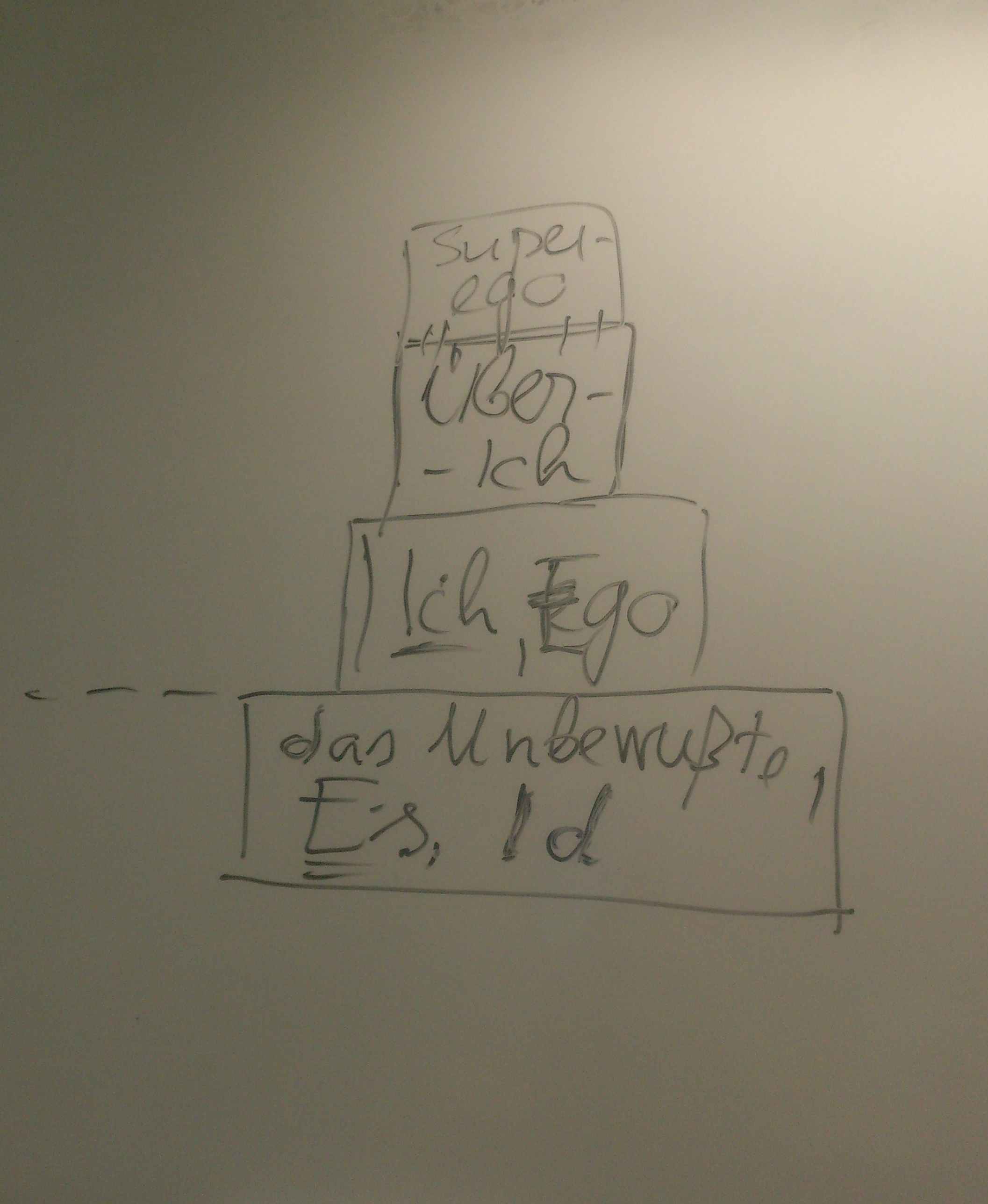 A scheme explaining Sigmund Freud's theory of consciousness, as interpreted by Estonian philosopher Ülo Matjus in his lecture "Phenomenology from Estonian point of view" in University of Tartu, on November 24, 2015.